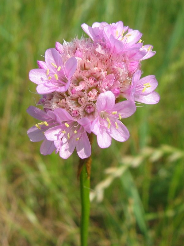 Sand-Strand-Grasnelke Armeria maritima subsp. elongata, Zingst